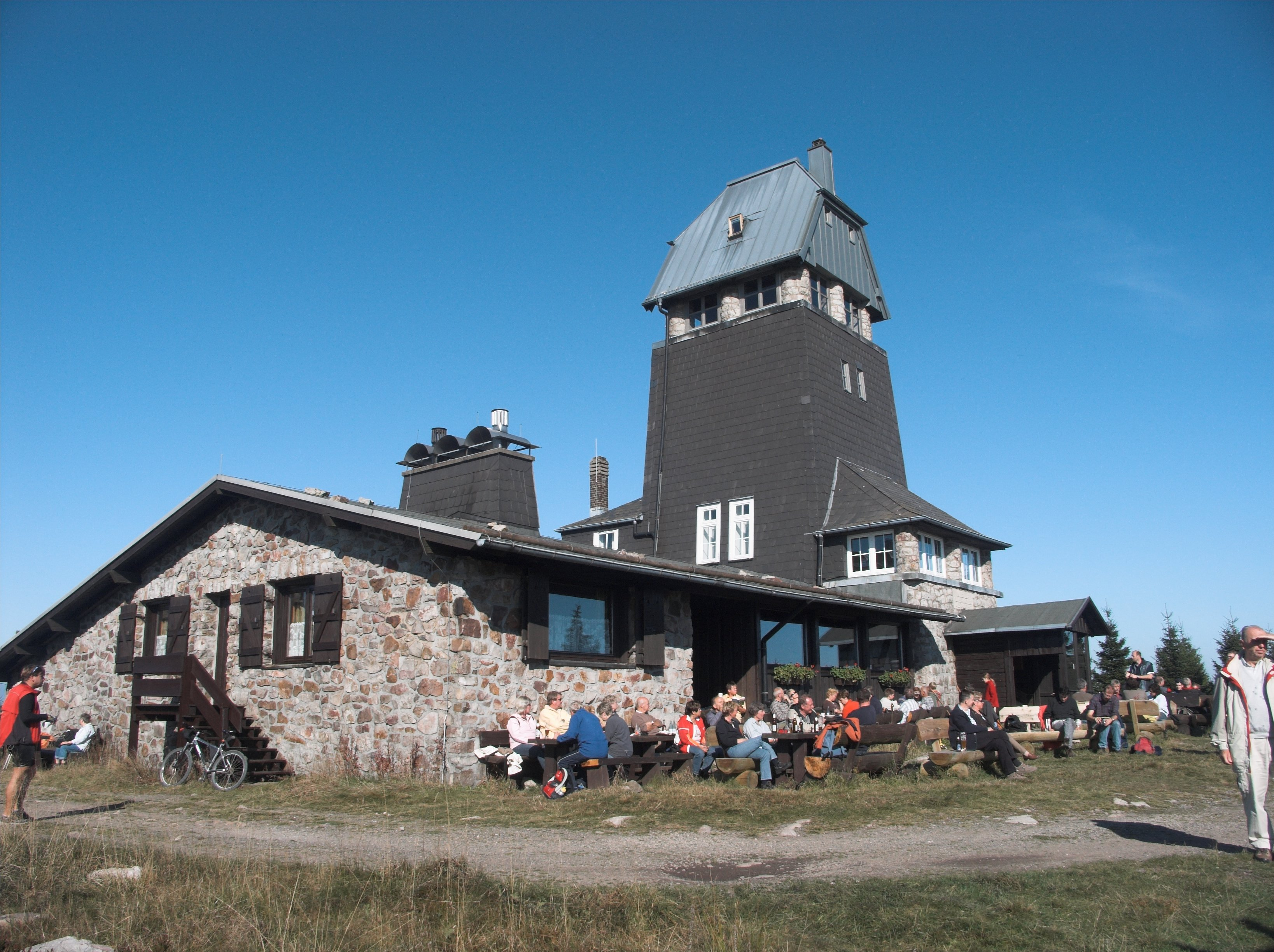 The Hanskühnenburg tower in the Harz mountains, Germany